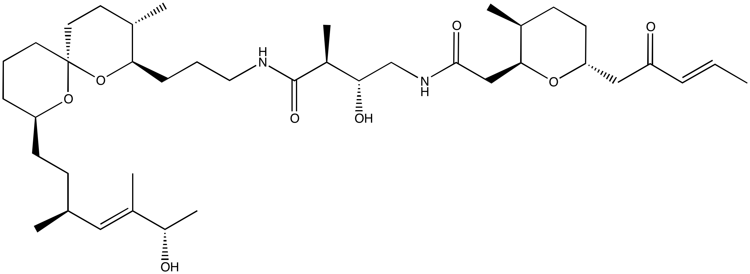 Structure of Bistramide A